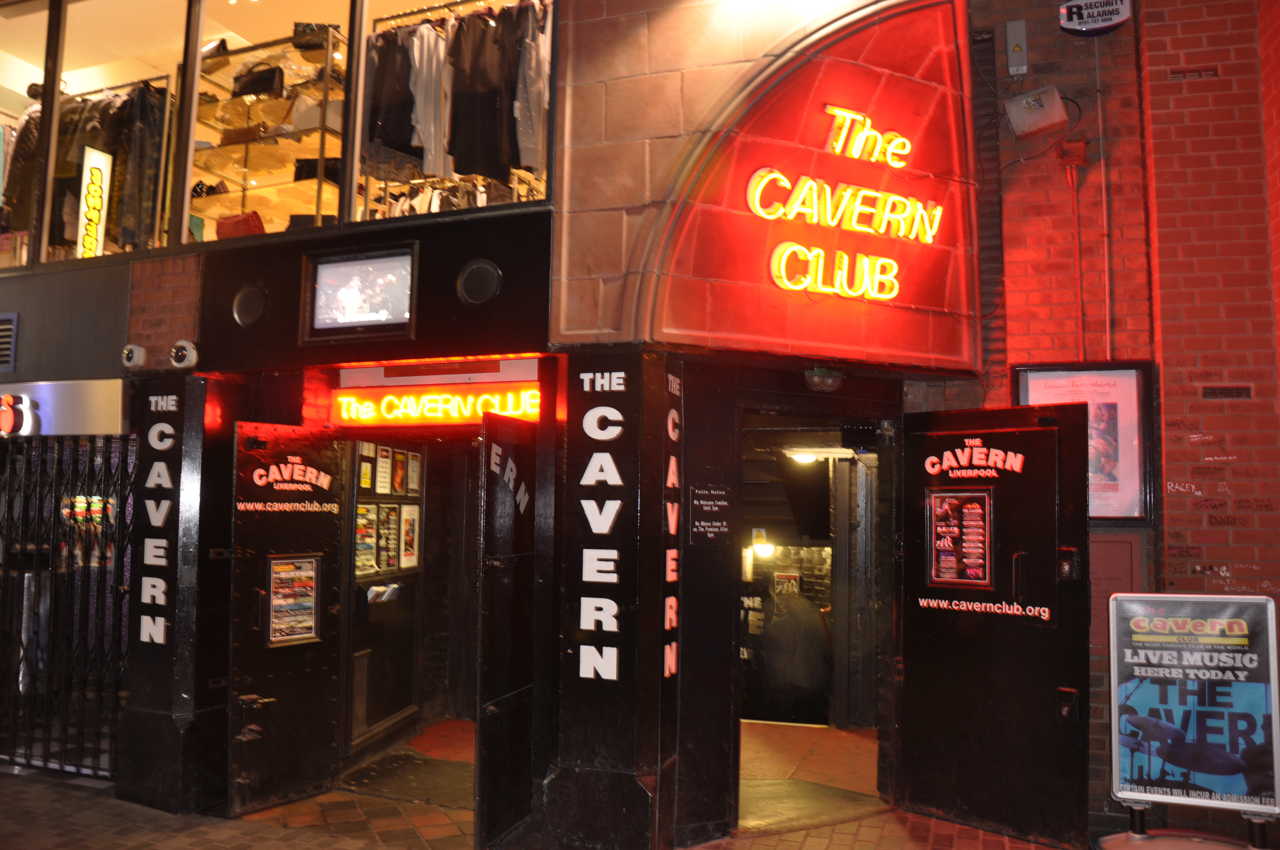 The original club was torn down in 1973; it was rebuilt in 1984 with over 15,000 of the original Cavern bricks.